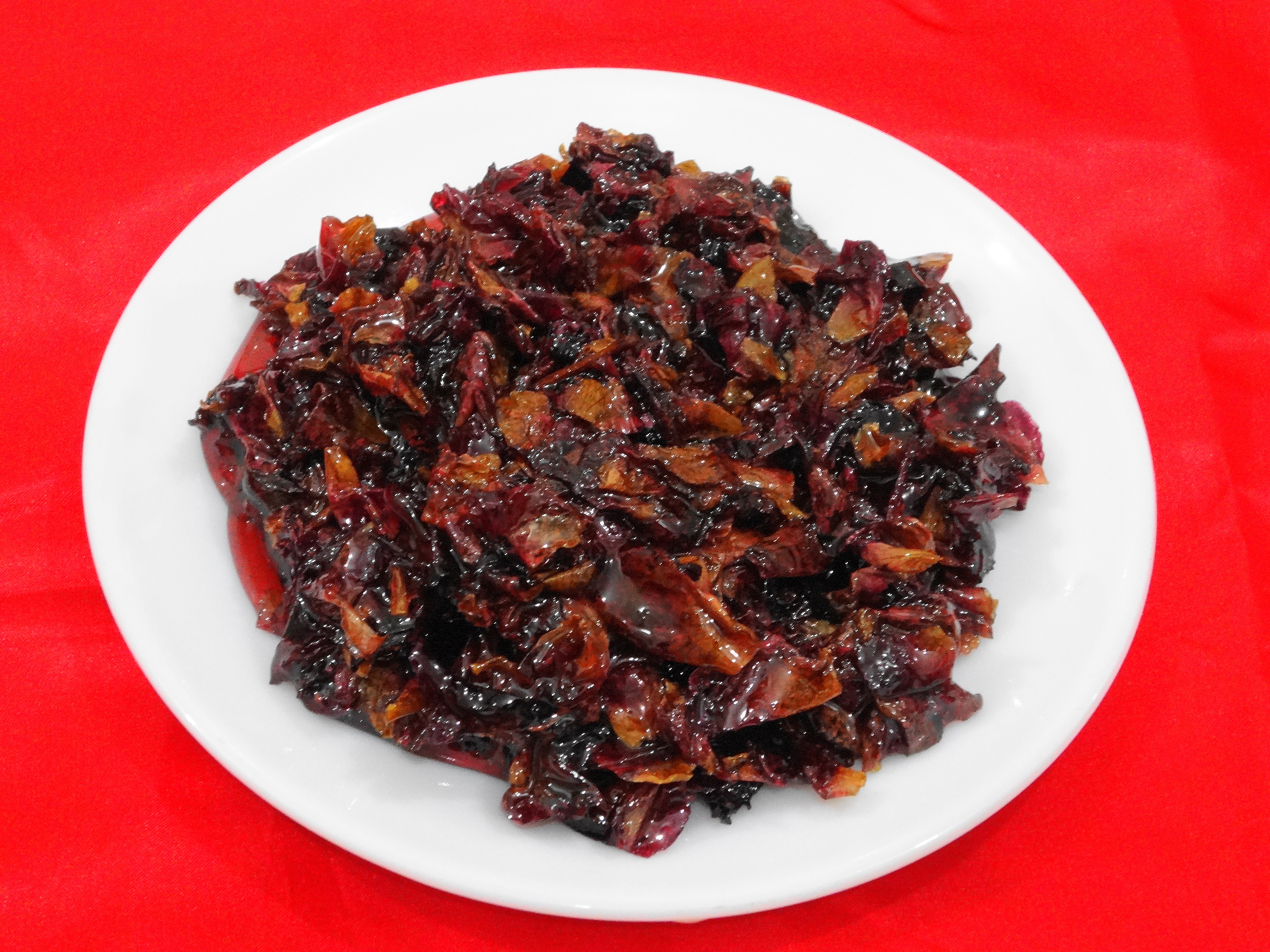 Rose Petal spread, Gulqand, گلقند